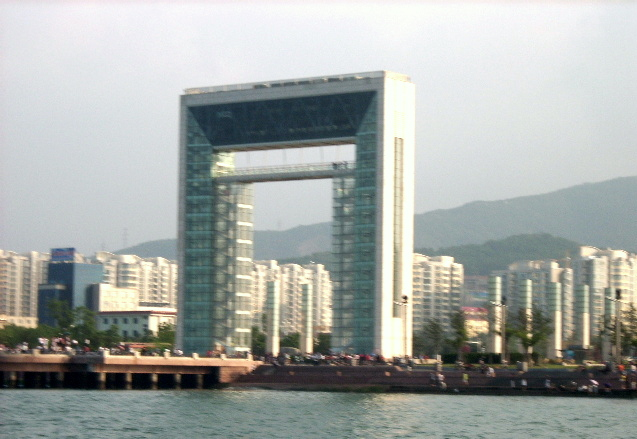 View of Happiness Gate from sea Weihai, Shandong , China